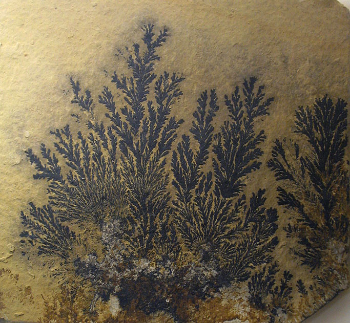 Dentritic pyrolusite formations from Solenhofen, Germany. Photograph taken at the Natural History Museum, London.